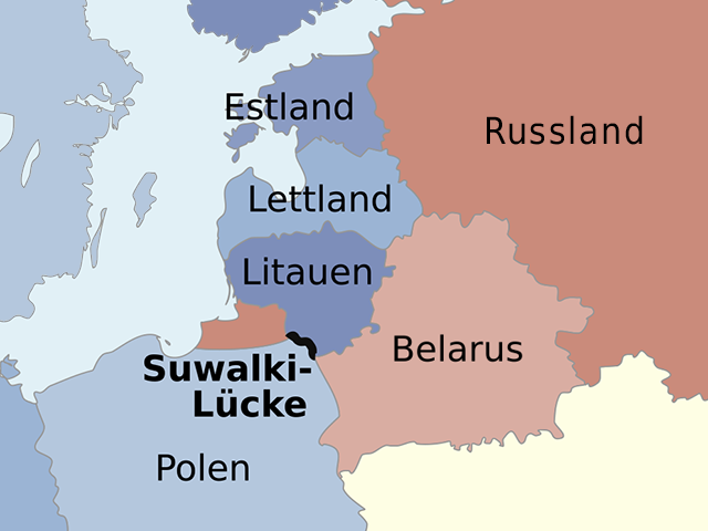 cropped version of original